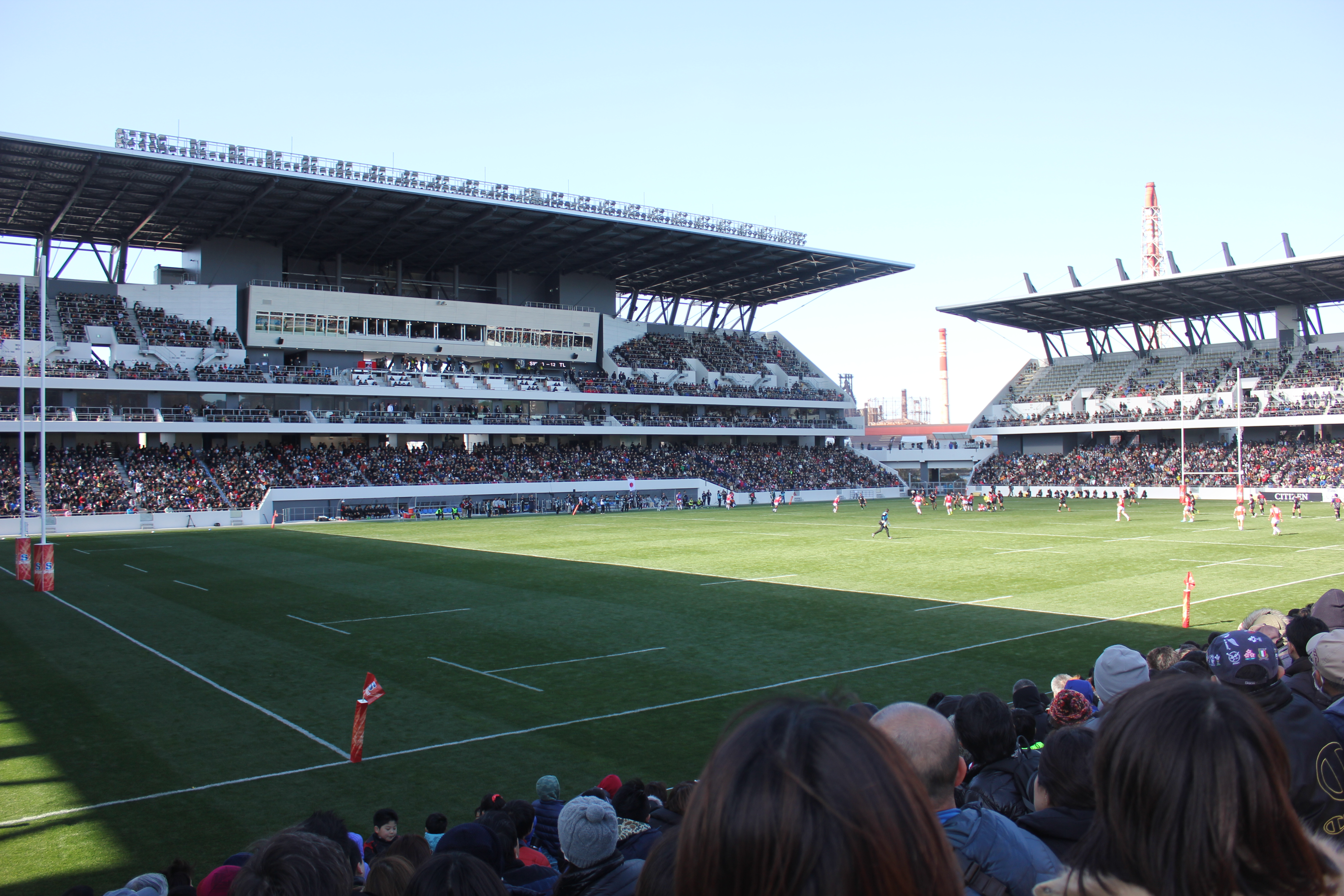 Mikuni_World_stadium